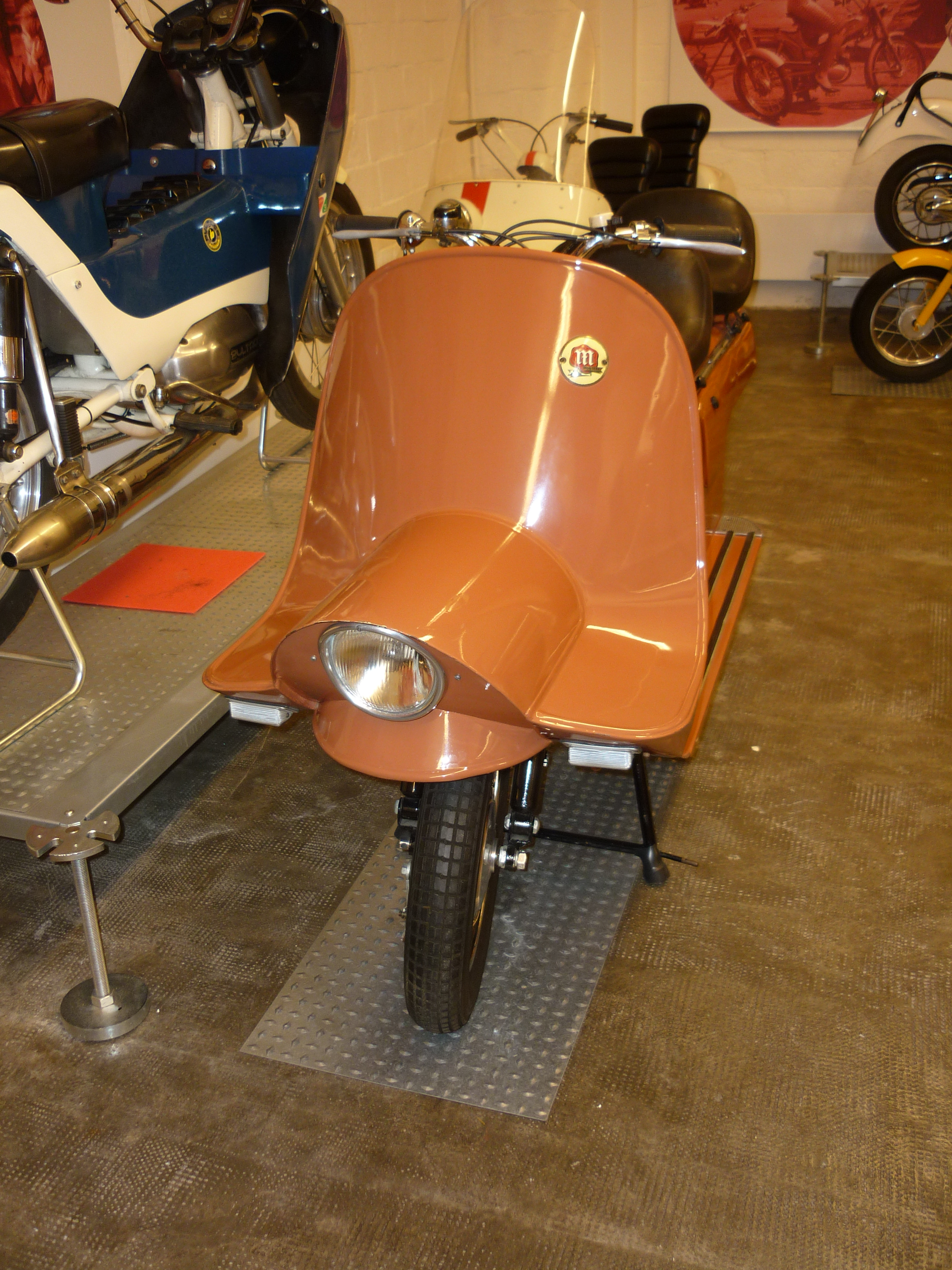 Montesa Fura (scooter) 142cc, 1958